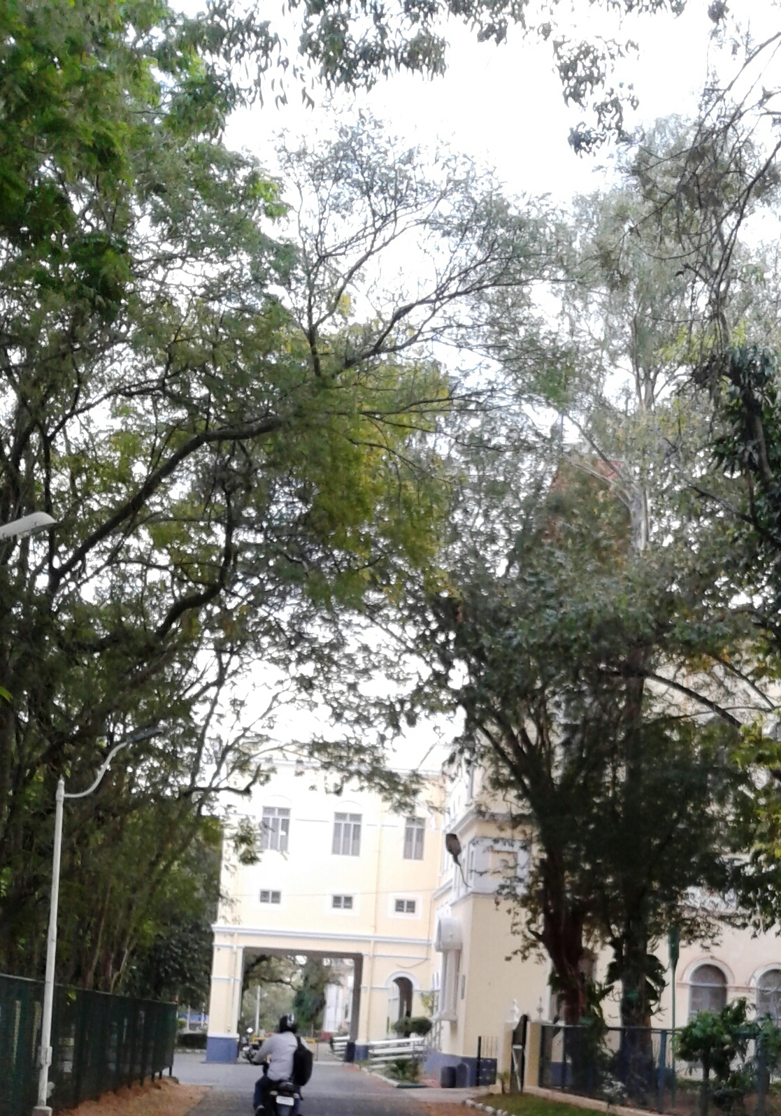 Mysore city, Karnataka state, India.